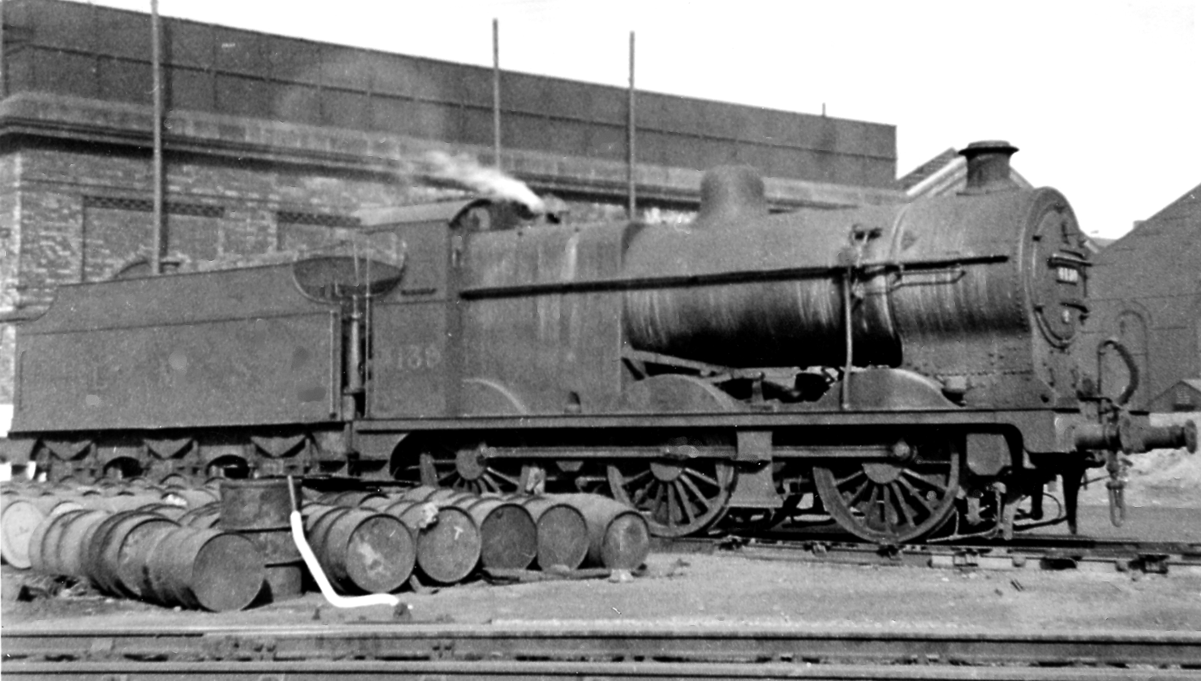 LMS Fowler 4F 0-6-0 at Saltley Locomotive Depot. An absolutely typical example of one the 40 or so 4Fs, together with 50 3Fs, working from Saltley at the time, No. 4139 was built in 1925, withdrawn in 8/65. How bored I got with them all at the time!